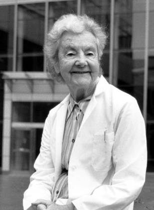 Dr. Audrey Elizabeth Evans (born 1925) is a pediatric oncologist known for founding the original Ronald McDonald House.